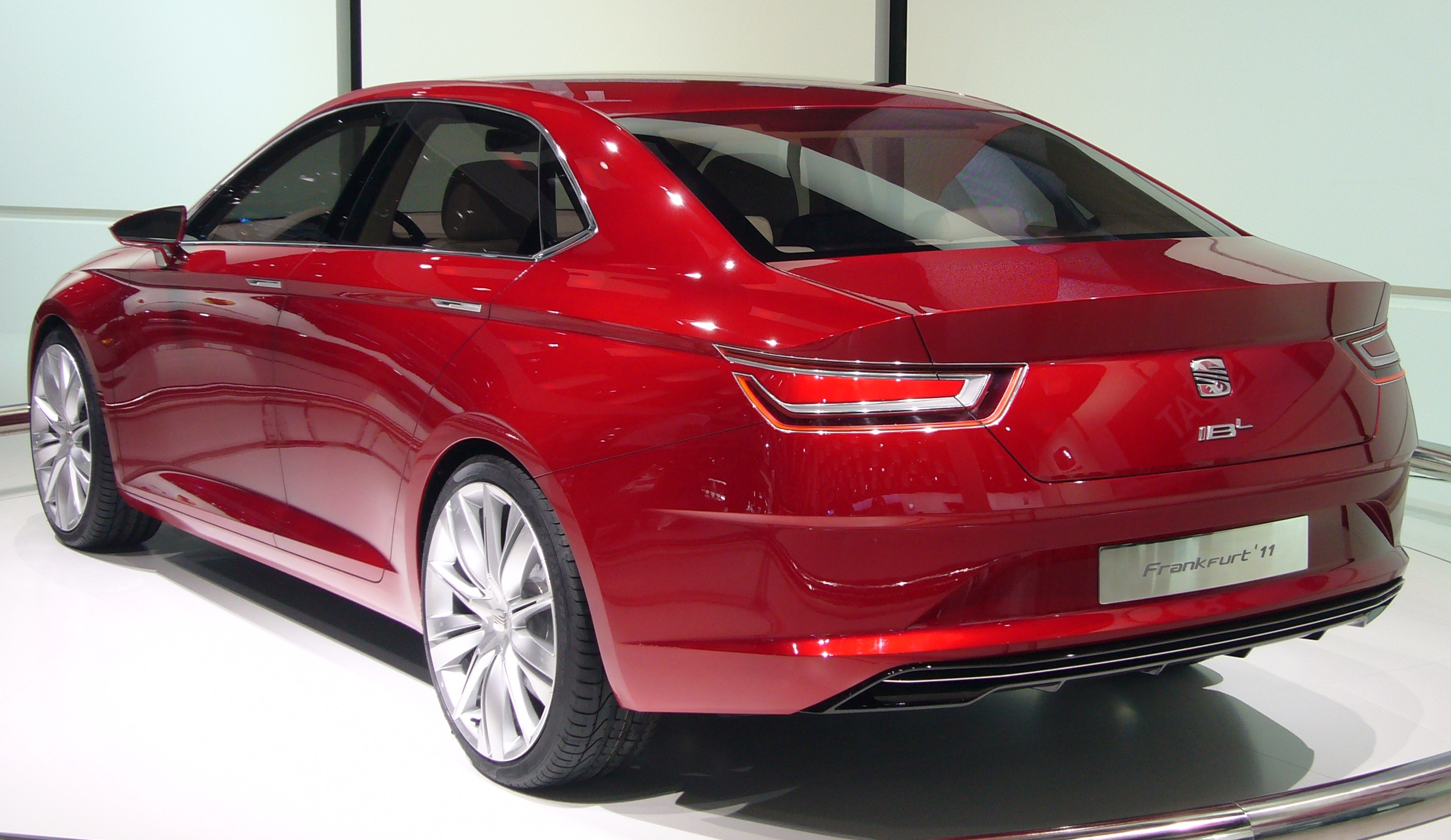 Seat IBL Concept at IAA Frankfurt 2011